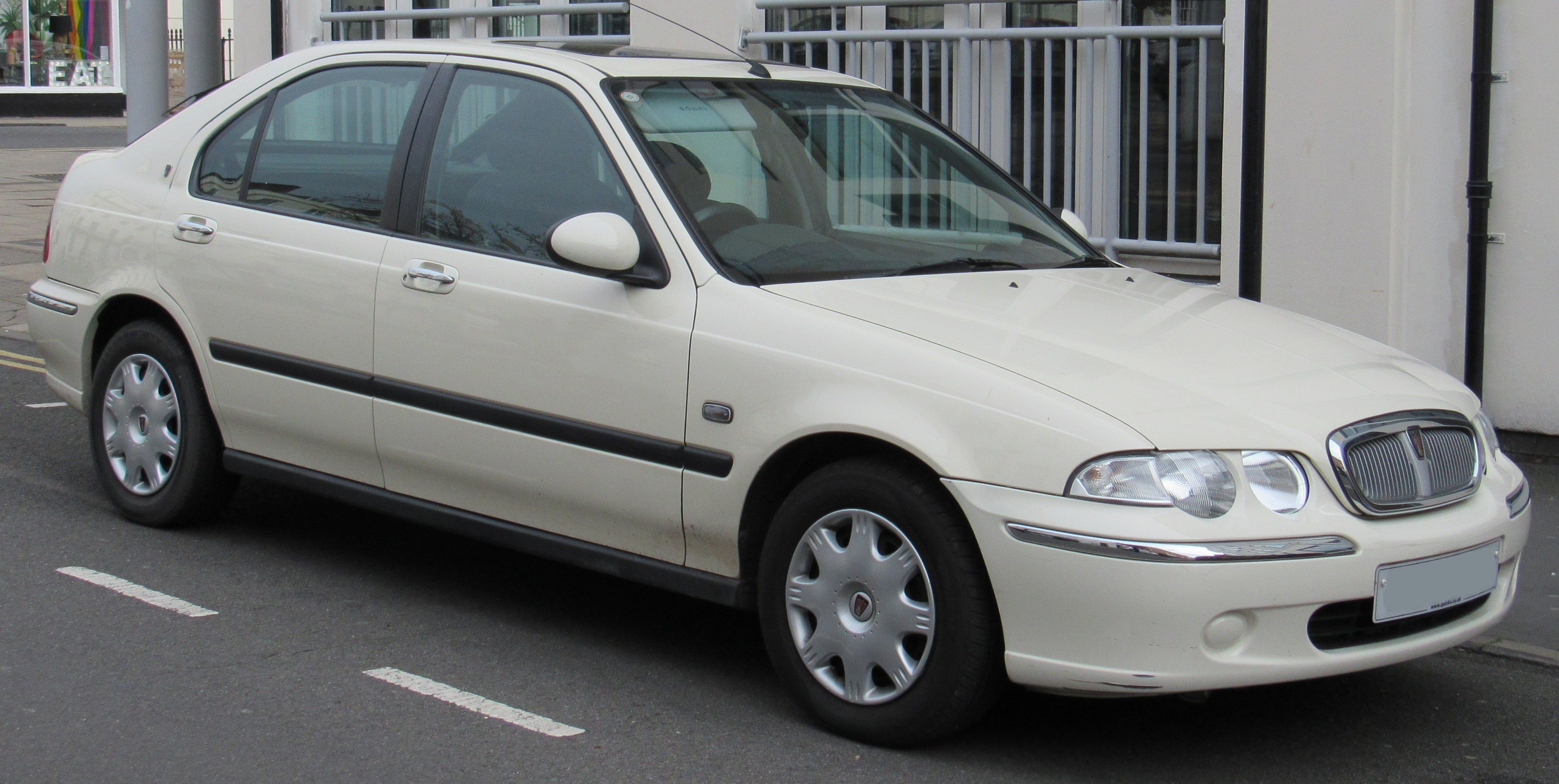 2001 Rover 45 IL 16V 1.6 Front